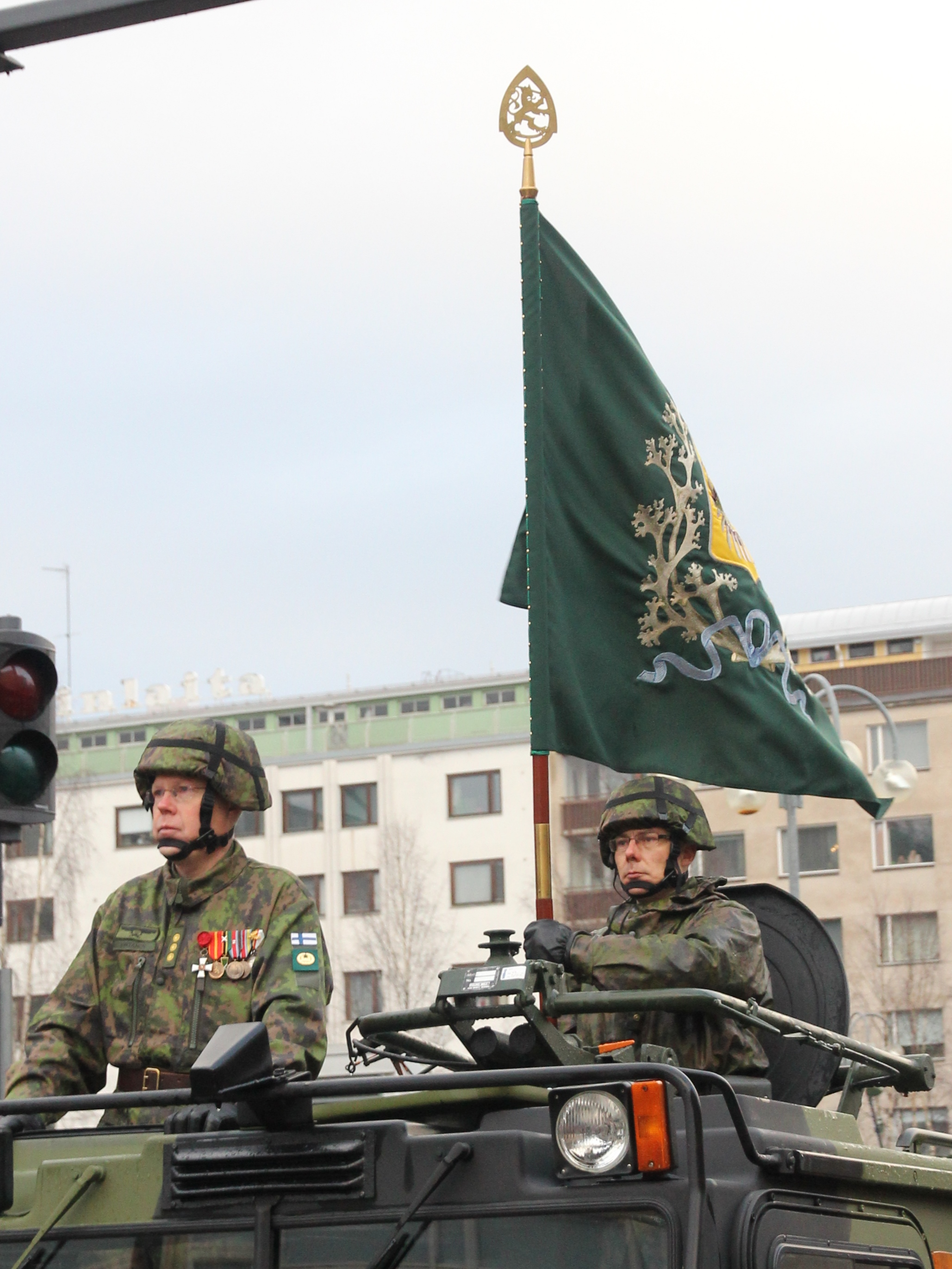 Kainuu brigade flag and brigade commander colonel Vesa Virtanen. 2015 Finnish Independence day parade.